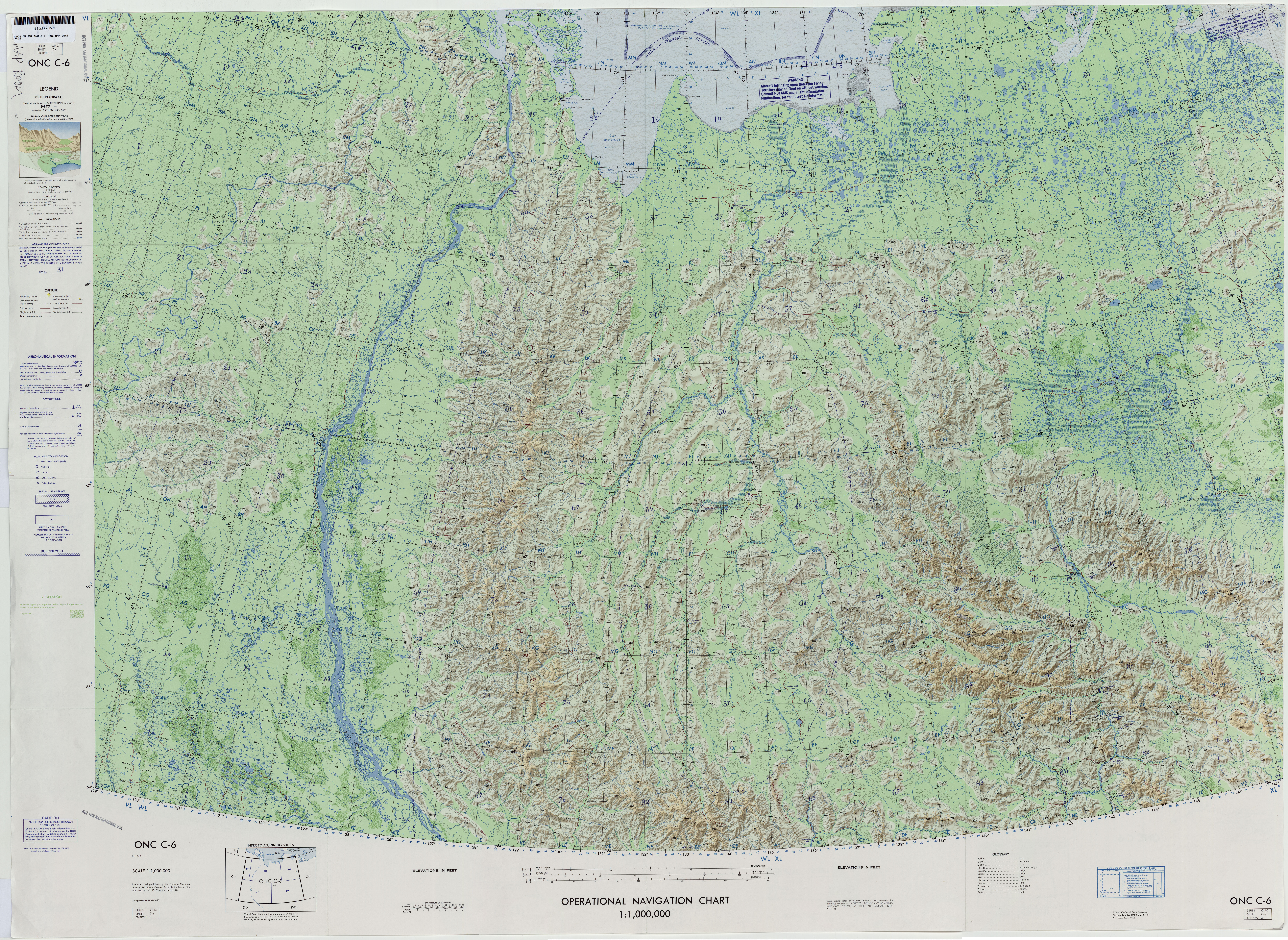 1:1,000,000 scale Operational Navigation Chart, Sheet C-6, 3rd edition. Covers U.S.S.R. Lambert Conformal Conic Projection. Standard Parallels 65 20N and 70 40N. Center longitude 133E.